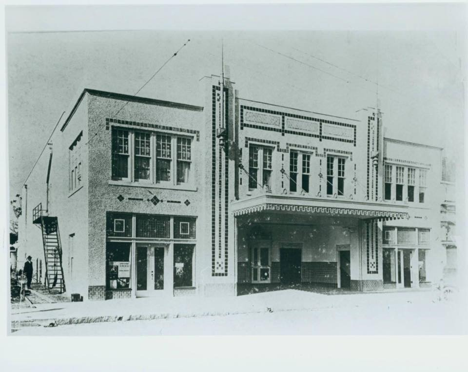 The Beacham Theatre in Orlando, Florida completed in 1921 *exact photo date unknown circa 1921-1924 however it is apparent that the eight story (actually 10-story) 1922 addition to the San Juan Hotel just south of and next door to the Beacham Theater is not casting any shadow in this image